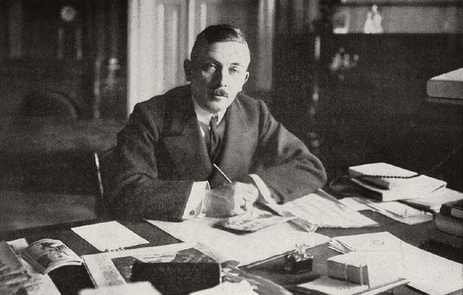 German Foreign Minister Richard von Kühlmann, served during World War I.